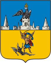 Maloarkhangelsk (Oryol oblast), coat of arms (1781)